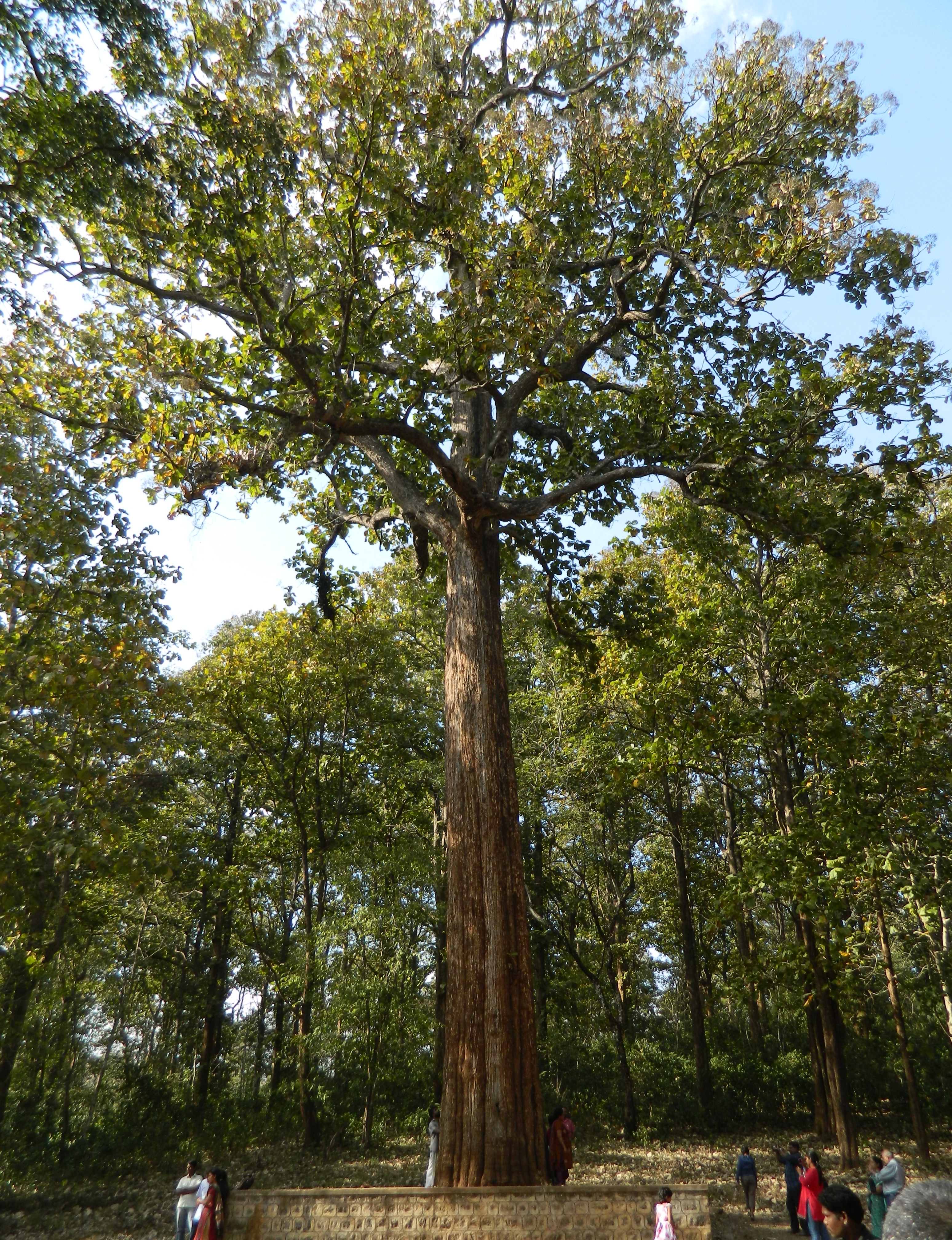 World biggest teak tree parambikkulam forest Kerala INDIA